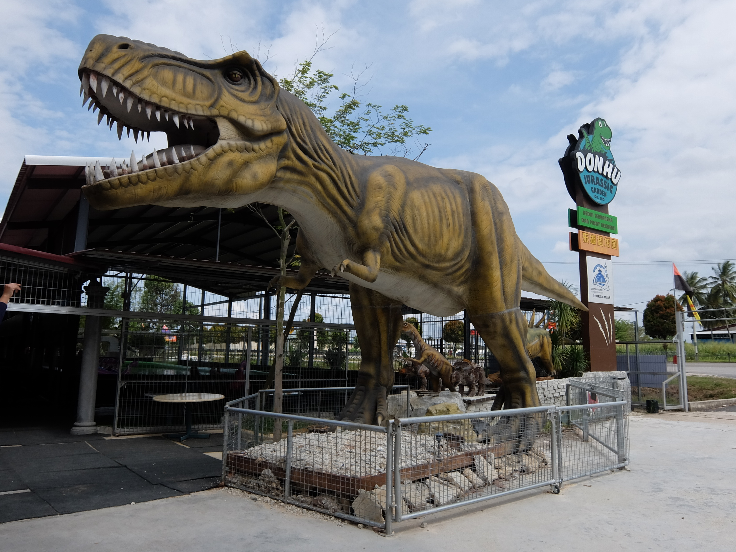 Donhu Jurassic Garden, Muar, Johor, Malaysia